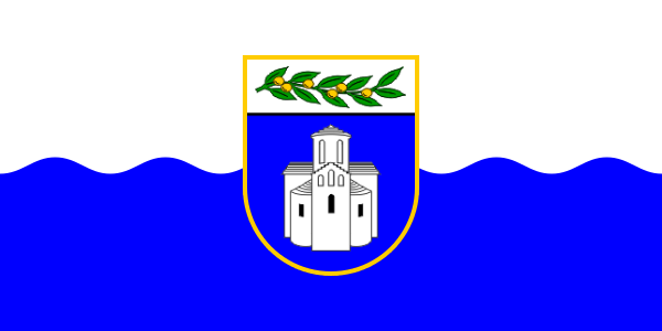 Flag of Zadar County, Croatia.